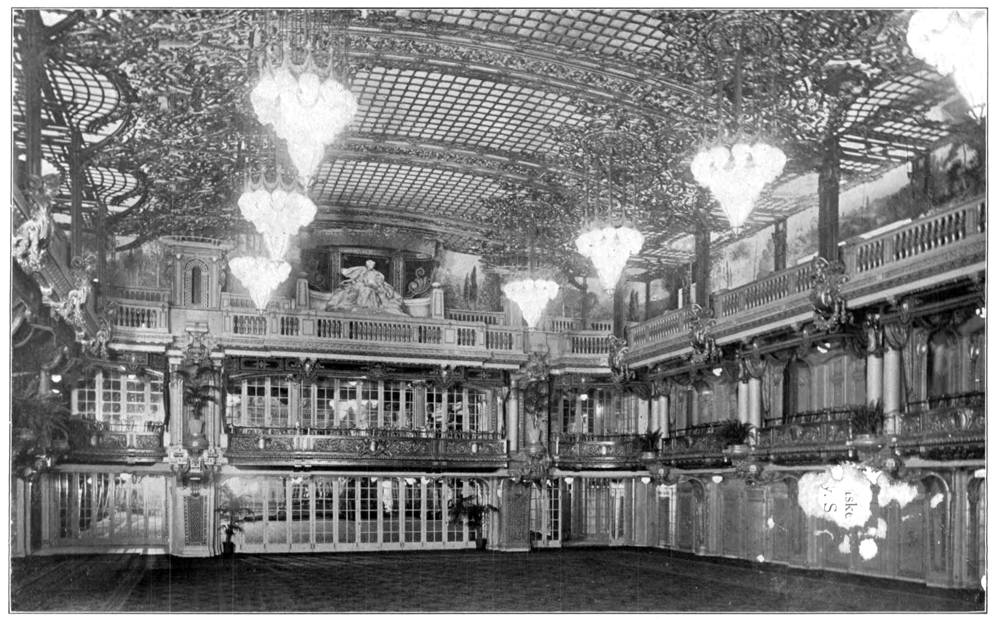 Ballroom, Hotel Astor, Times Square, New York City